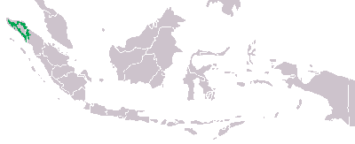 Sumatran Orangutan (Pongo abelii) range map, modification of File:Mapa distribuicao pongo.png, update depending on range map at IUCN red list